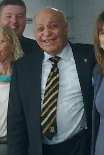 Assem Allam. Image cropped from original at flickr.